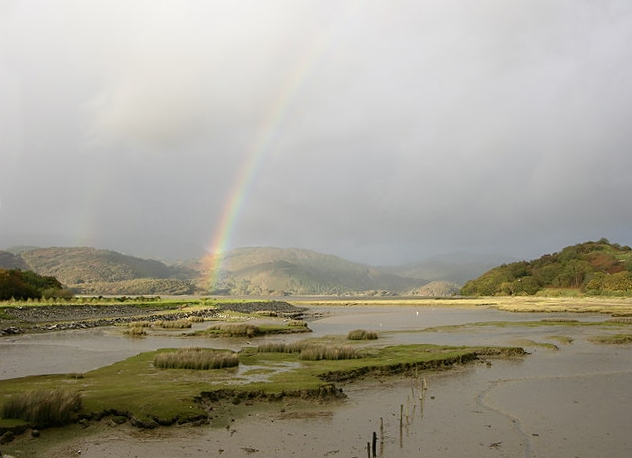 Rainbow over the Mawddach estuary